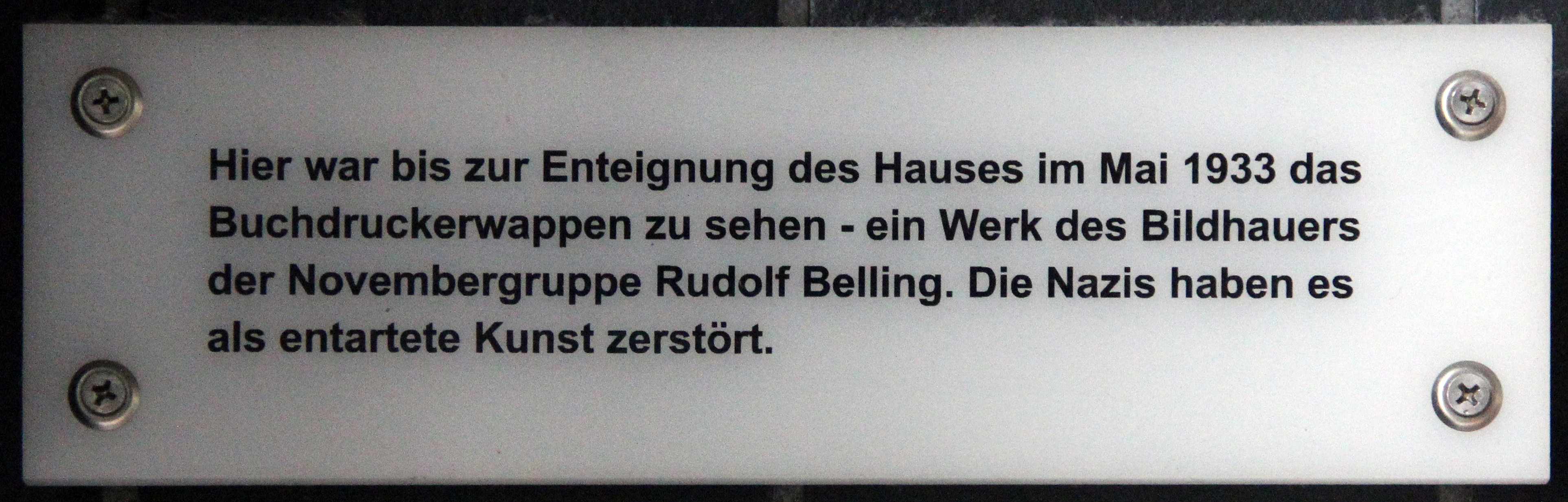 Memorial plaque, Buchdruckerwappen, Dudenstraße 10, Berlin-Kreuzberg, Germany